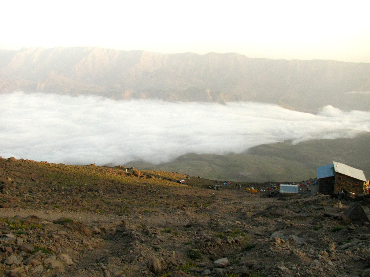 Damavand shelter in southern front, over clouds.